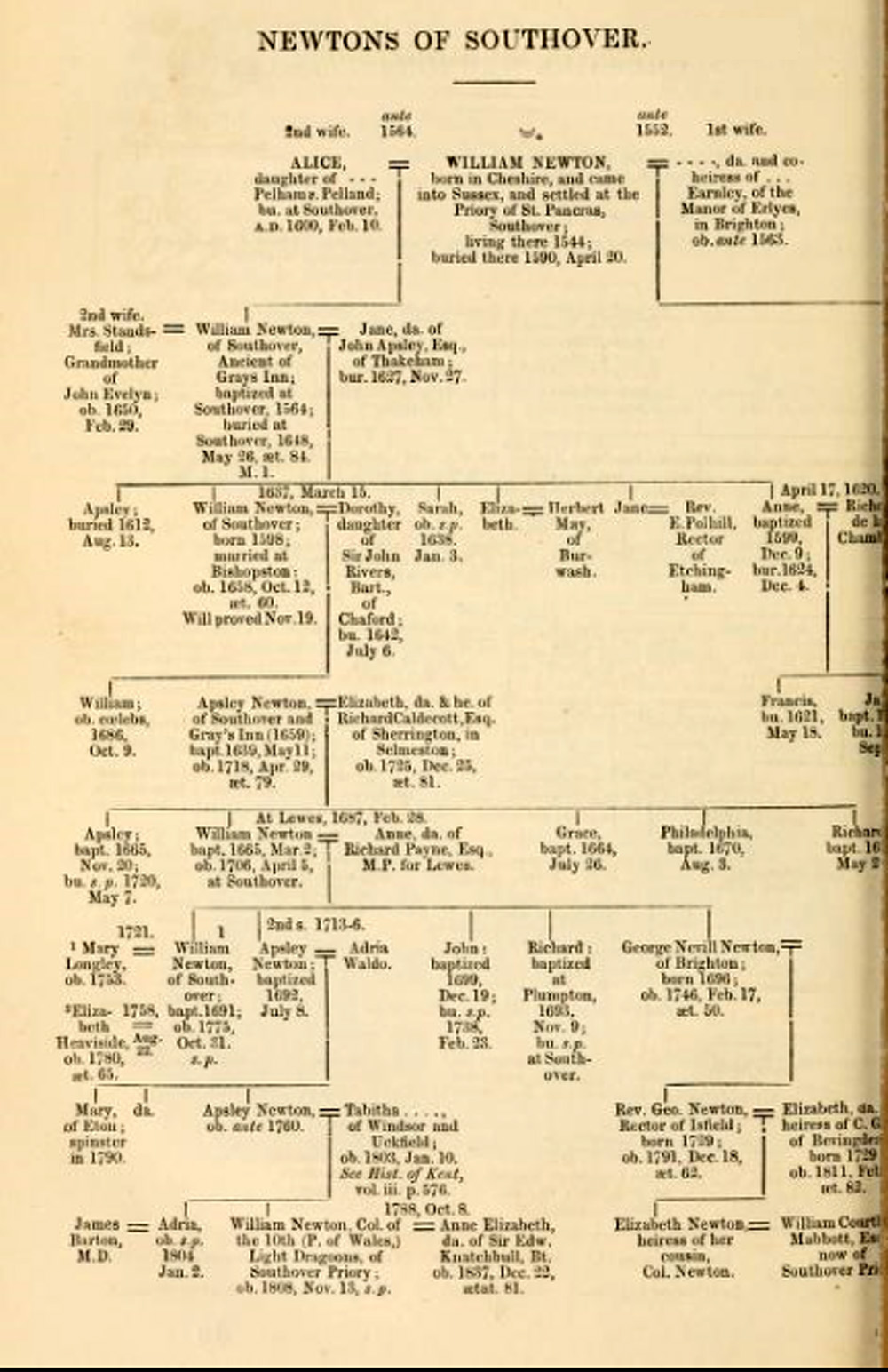 Family tree of the Newtons of Southover Grange